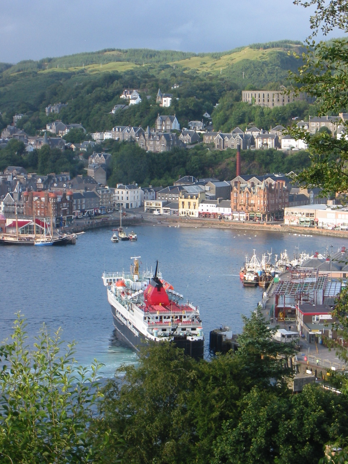 Oban harbour, Scotland